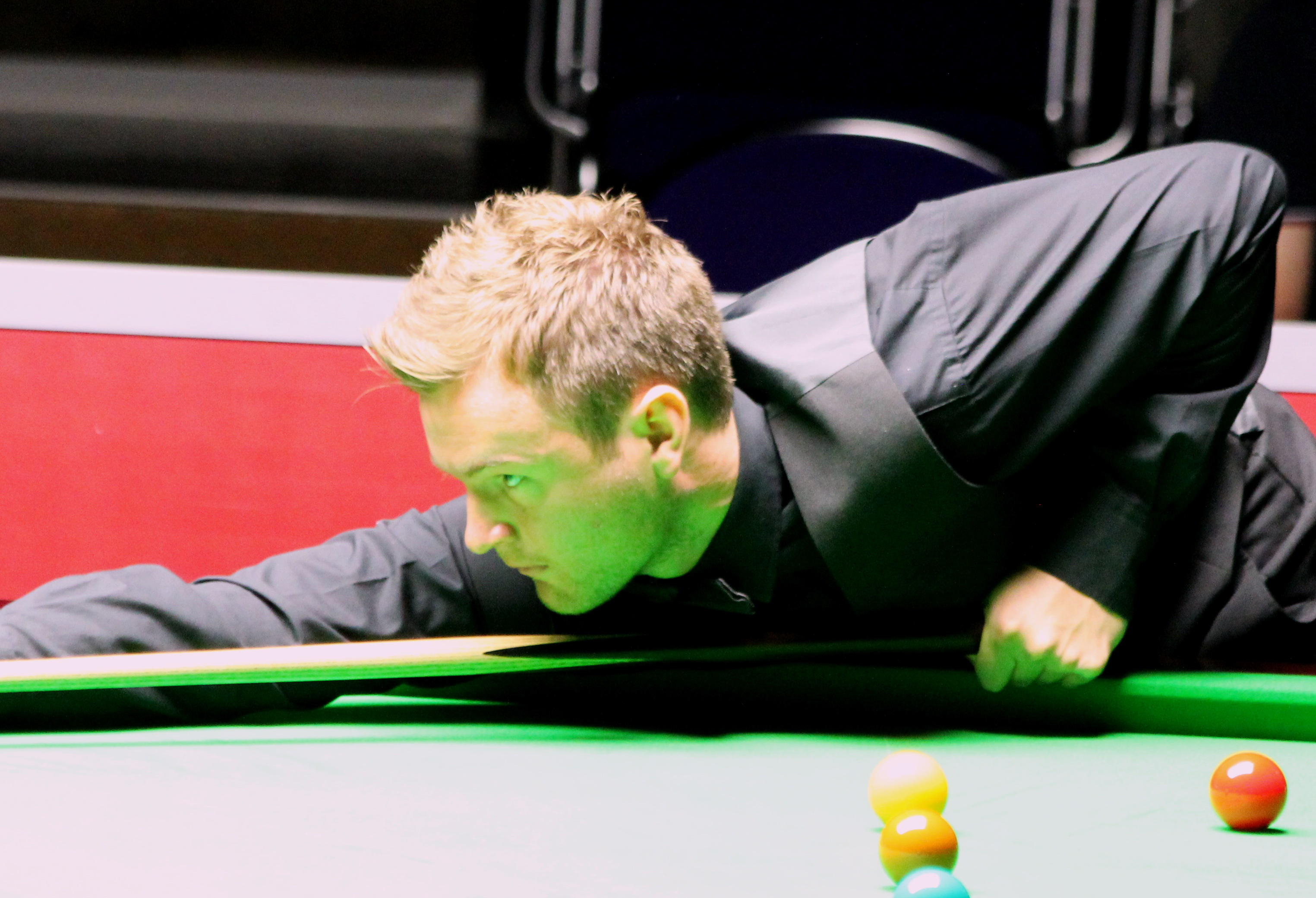 Liam Highfield beim Paul Hunter Classic 2016